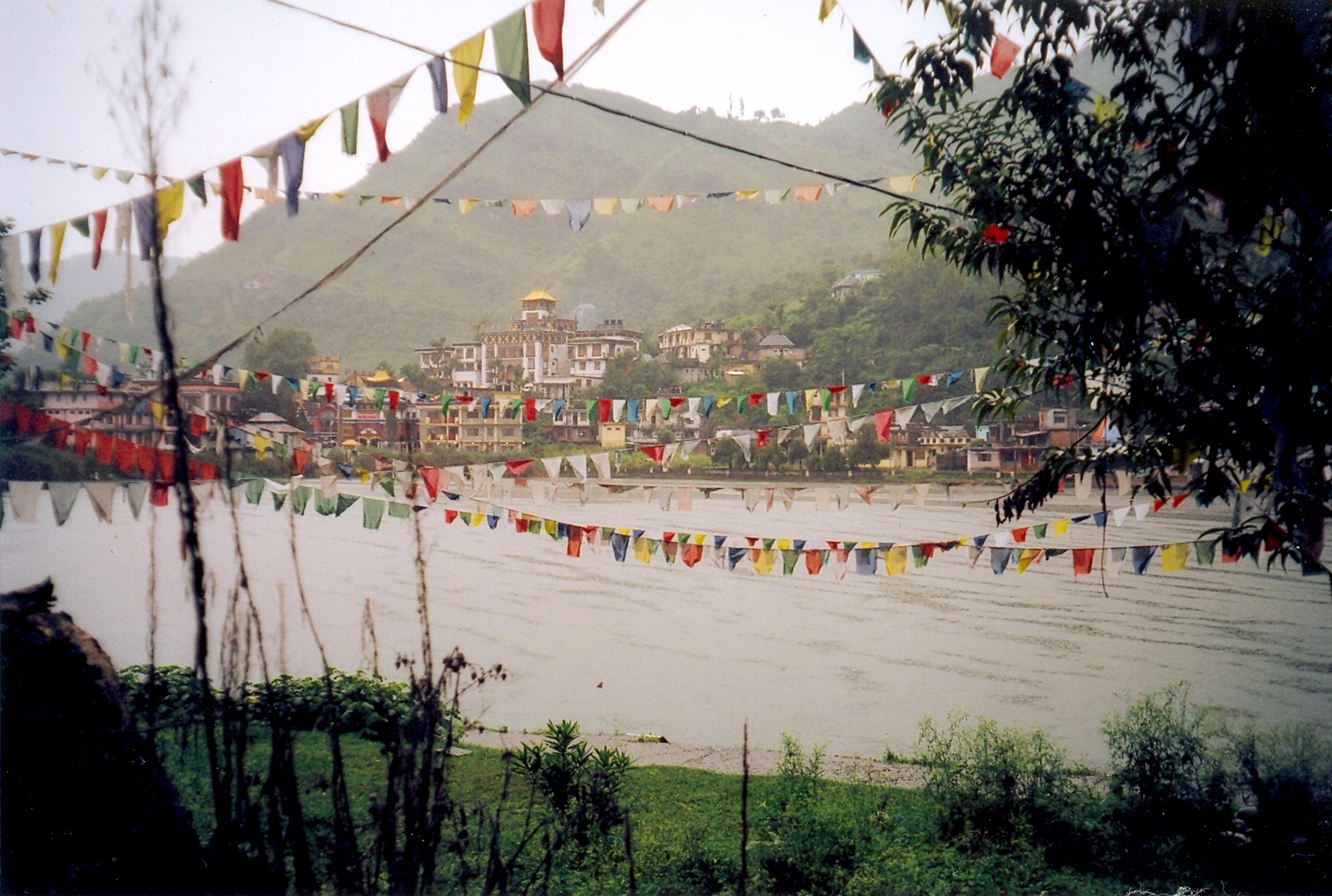 Rewalsar Lake, Himachal Pradesh, India. A sacred Buddhist site.